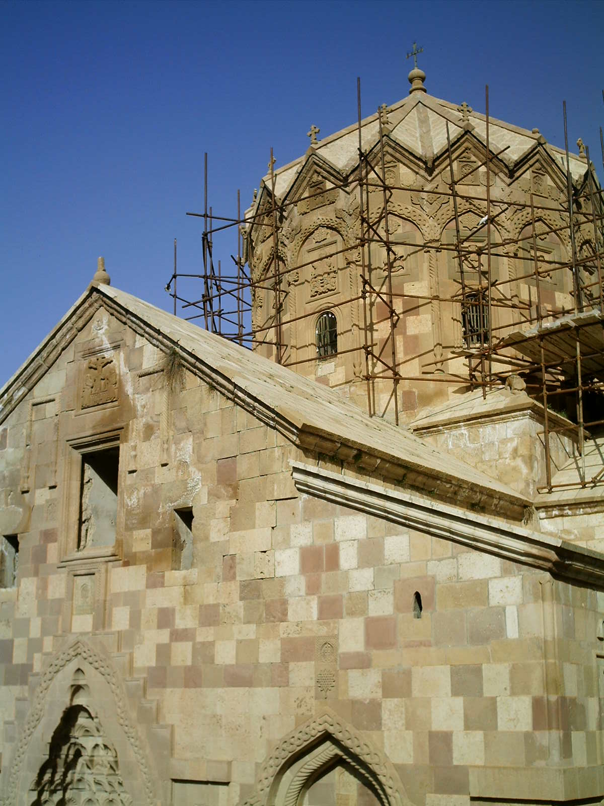 St Stepanous Cathedral church. In East Azerbainjan provience, Iran.